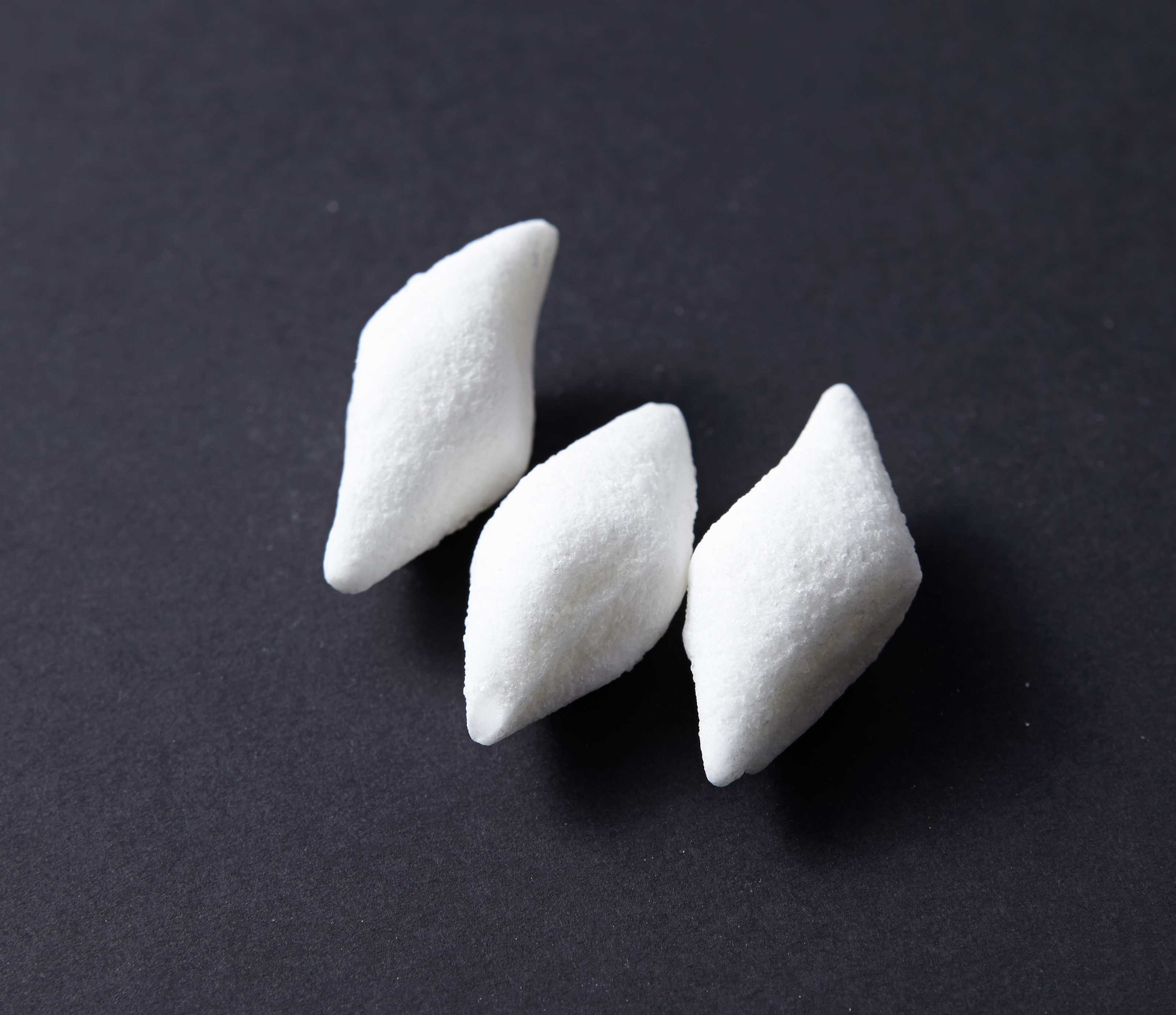 Bakha-satang (mint candy)